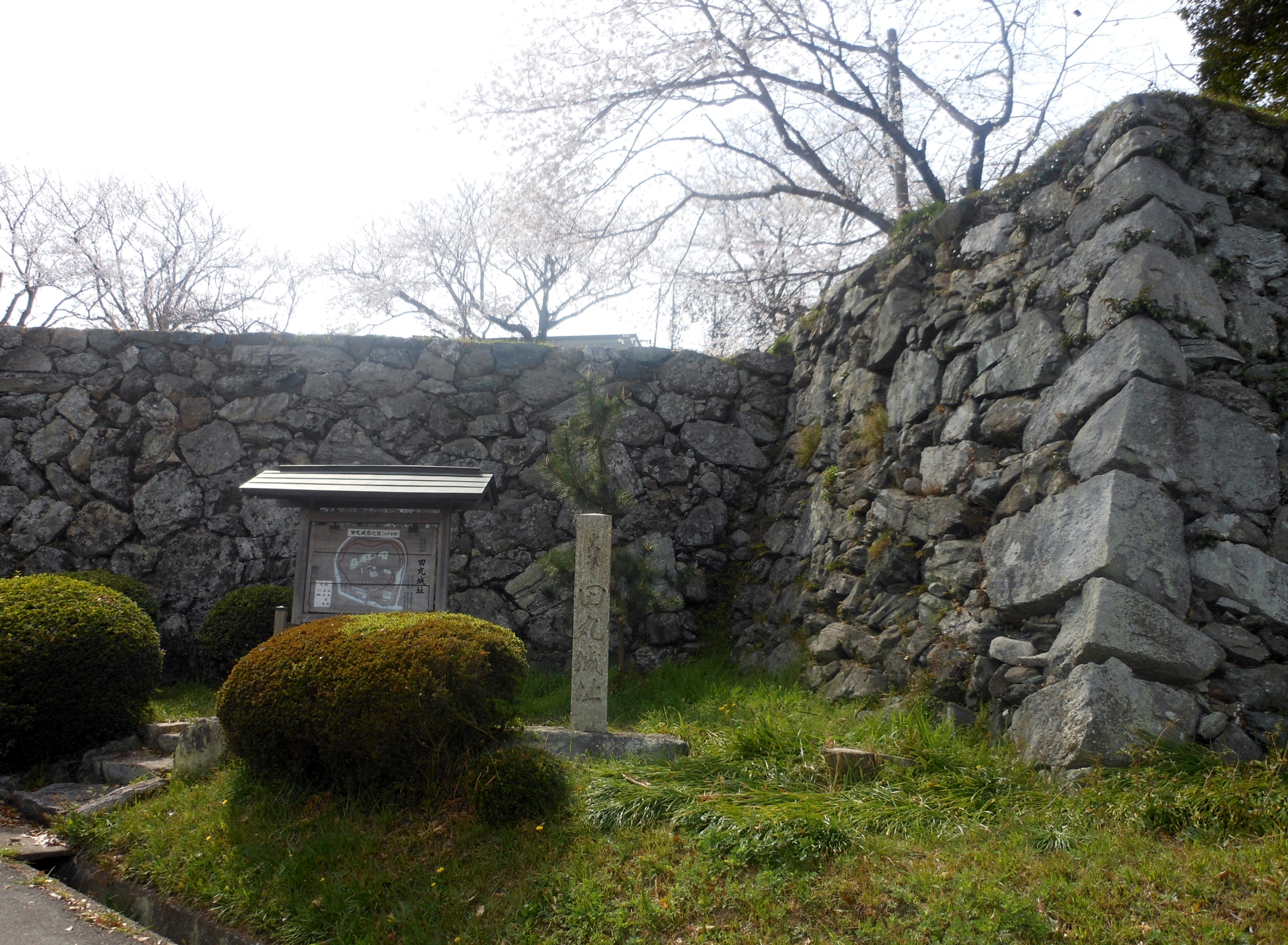 This is the Tamaru Castle Site, which is located in Tamaki, Mie, Japan.